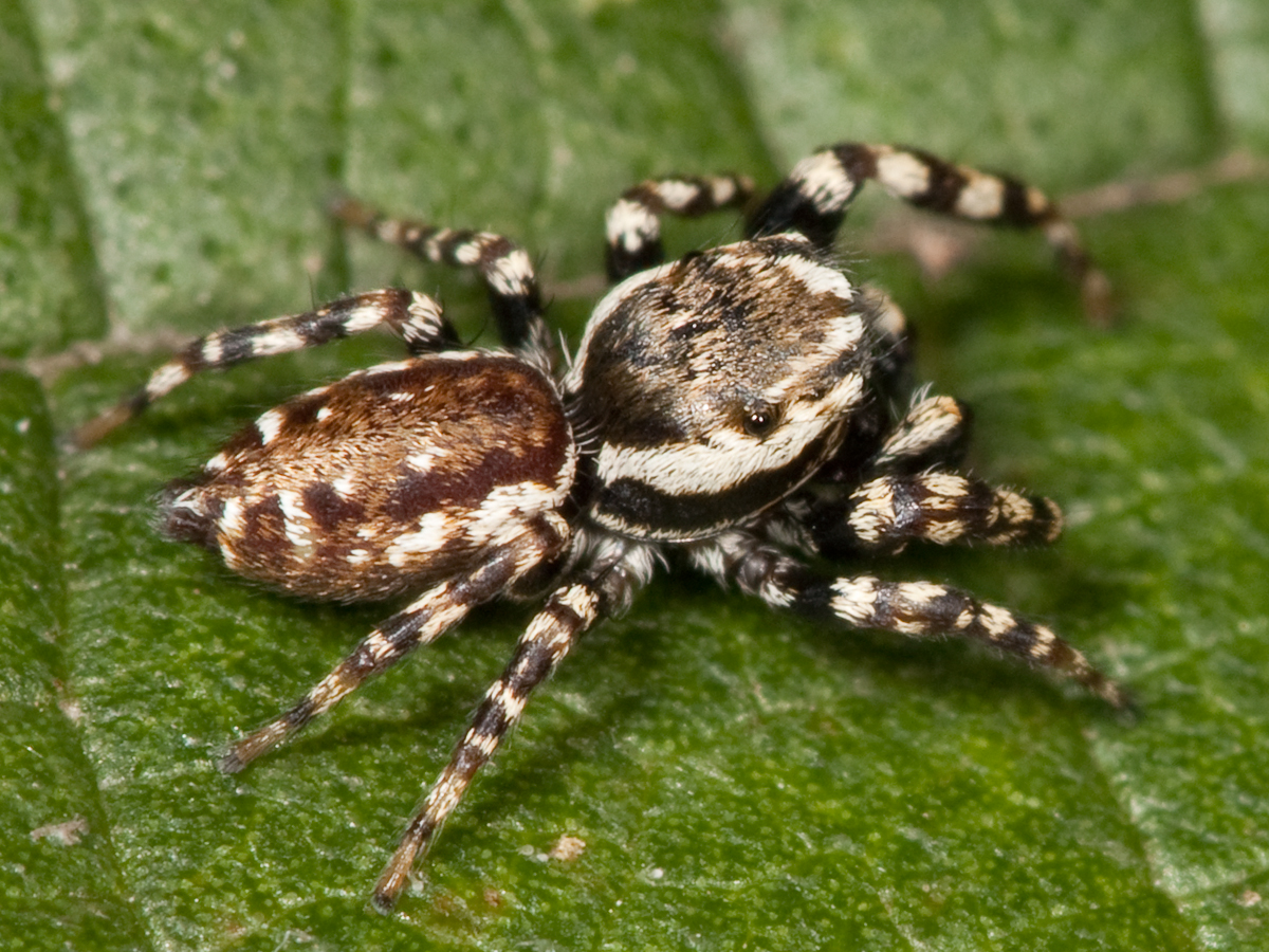 Adult male Peppered jumper (Pelegrina galathea) found at Shelby Park in Nashville, Tennessee